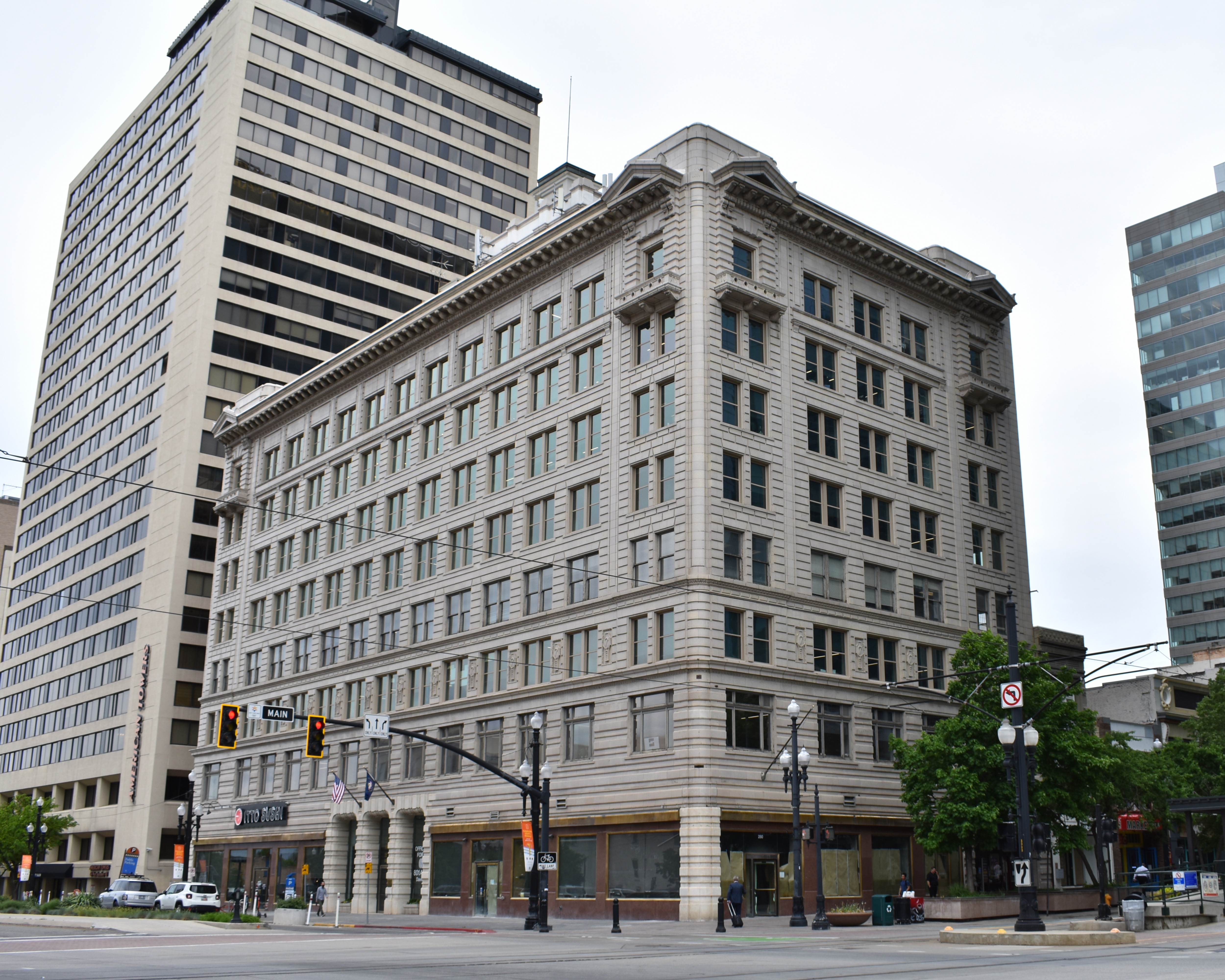 The Clift Building (1920) in Salt Lake City is listed on the National Register of Historic Places.